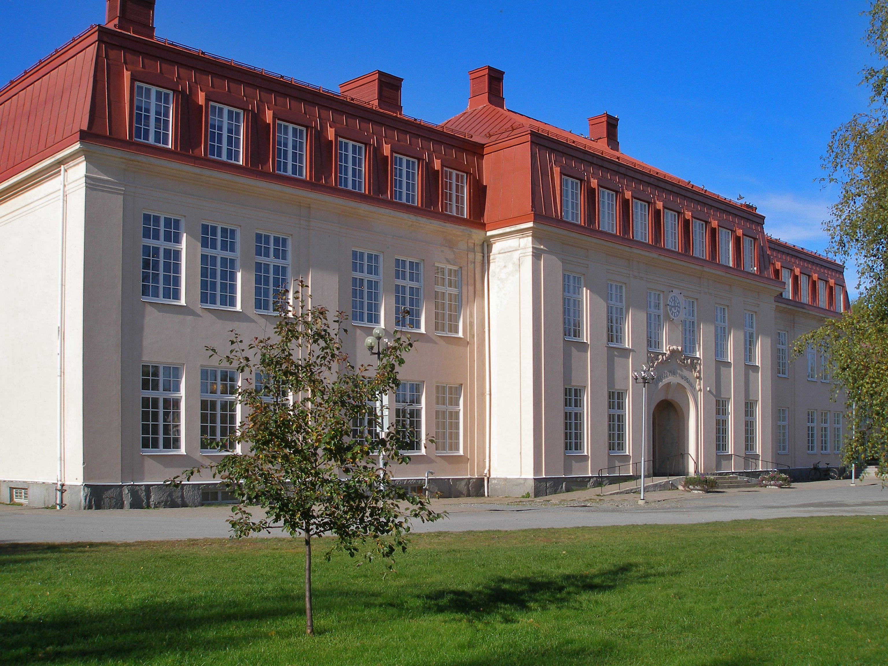 Skellefteå museum at Nordanå area in Skellefteå, Sweden.